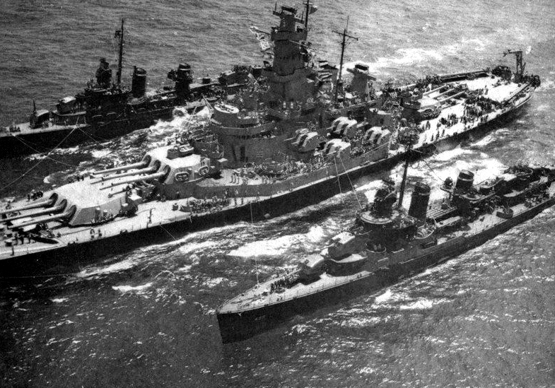 The U.S. Navy battleship USS Massachusetts (BB-59) refuels two Fletcher-class destroyers in 1945.